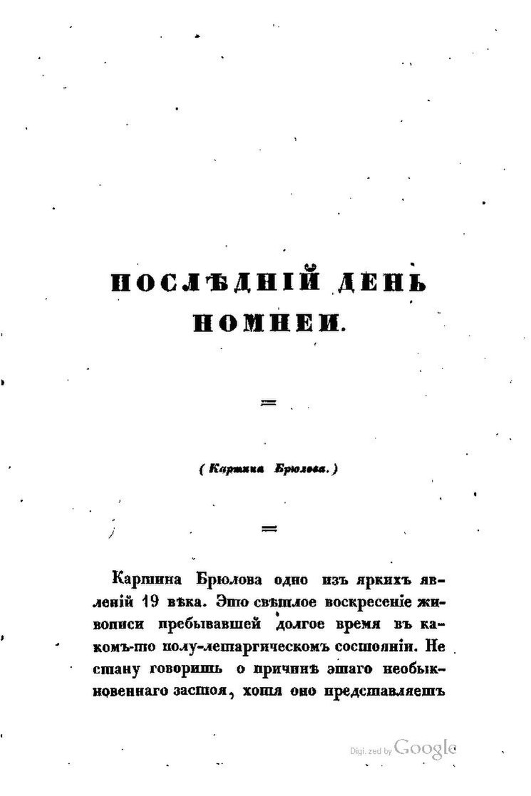 The first page of the article "The last day of Pompeii" from "Arabesques" by Nikolai Gogol (1835)